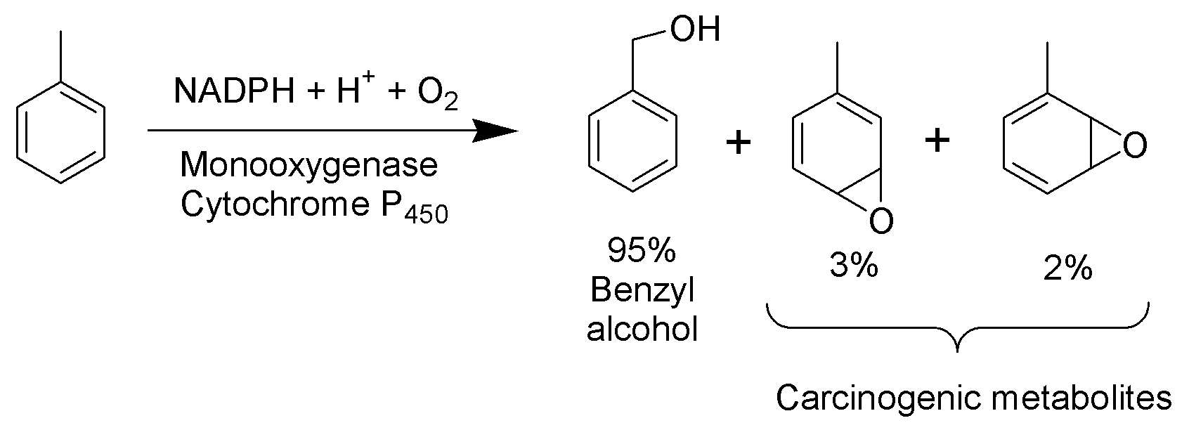 Description: The metabolism of toluene. Author, date of creation: selfmade by ~K, 11 September 2005. Source: Copyright: Public domain. (PD) Comments: high-resolution b/w PNG; ChemDraw / The GIMP.